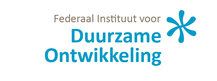 Federal Institute for Sustainable Development logo in Flemish